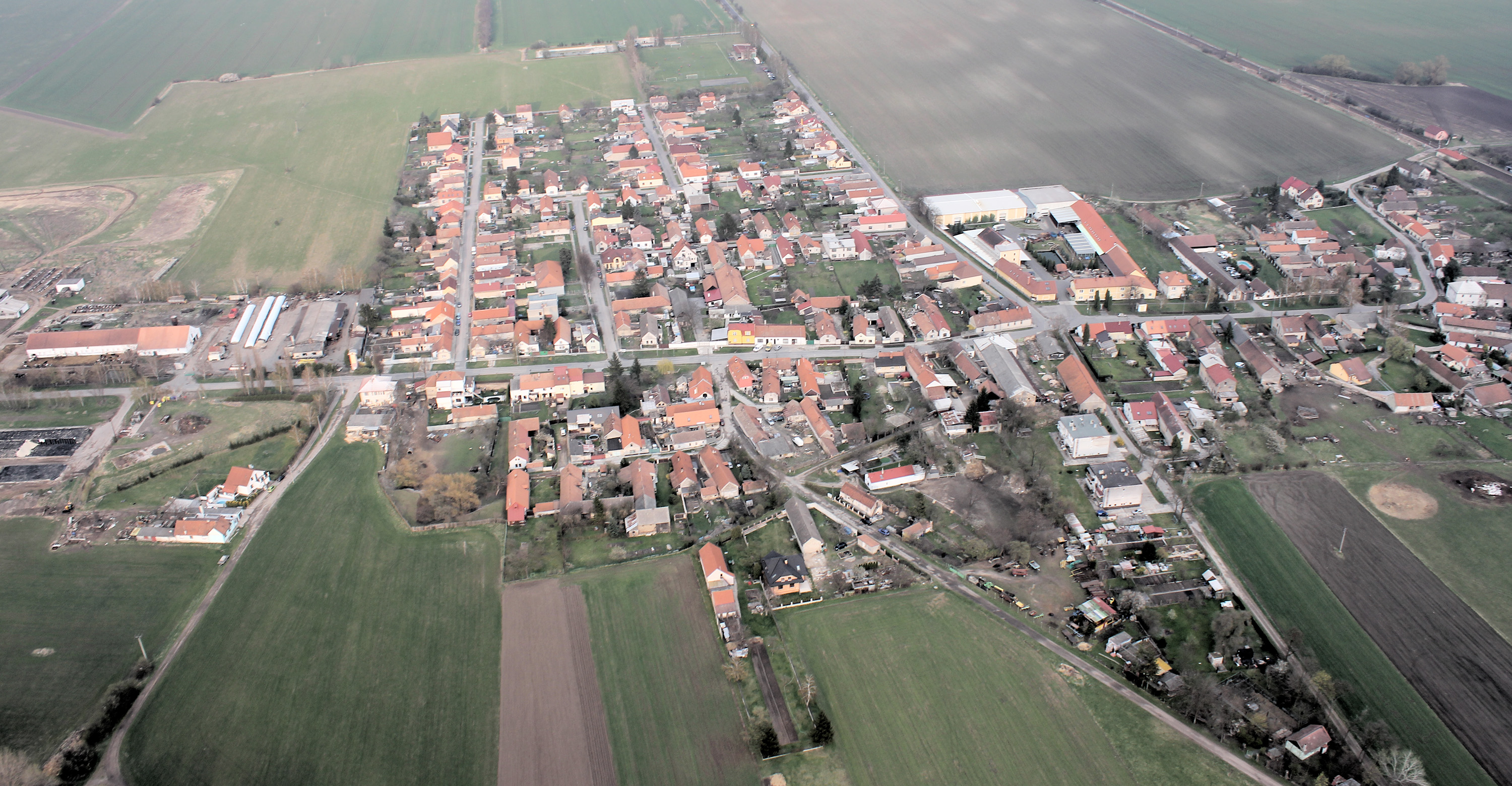 aerial photo